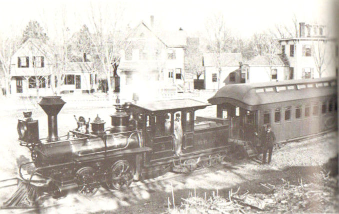 Boston, Revere Beach and Lynn Railroad locomotive Pegasus at Winthrop Center in 1888, shortly before the BRB&L opened the Winthrop Loop